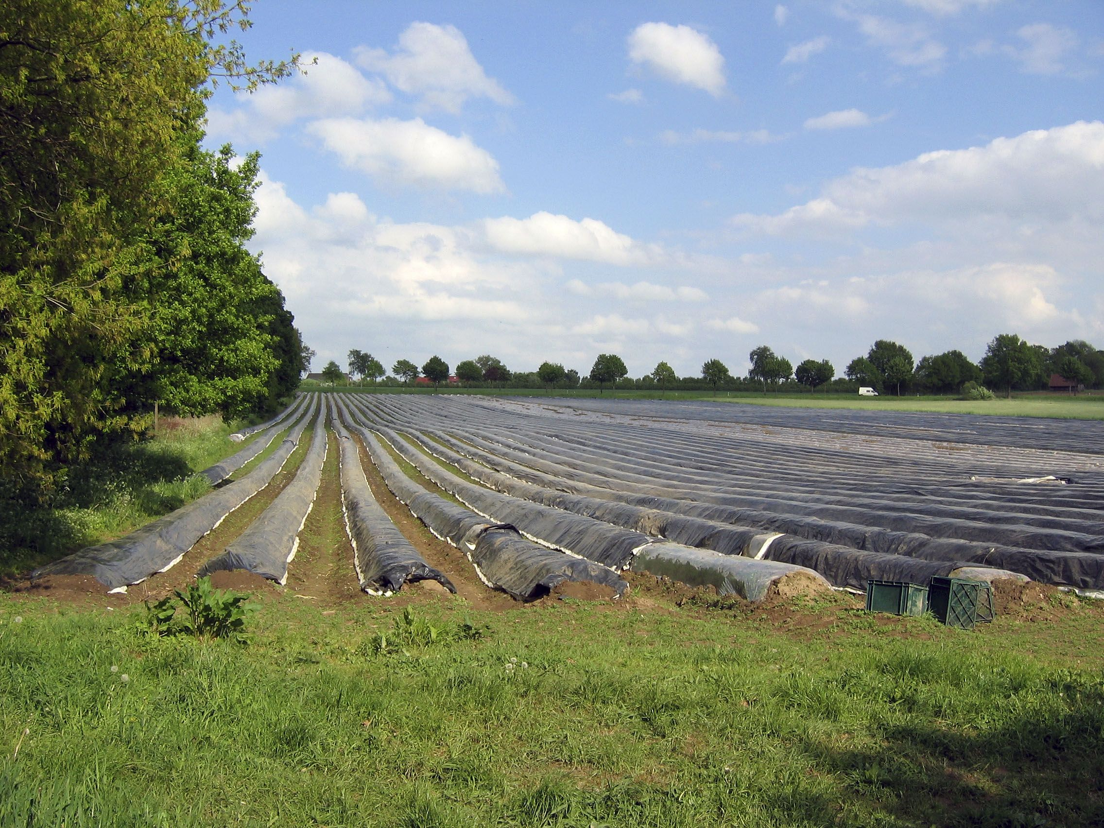 Bliedersdorfer Spargelfeld - A field of asparagus in Bliedersdorf (Germany)